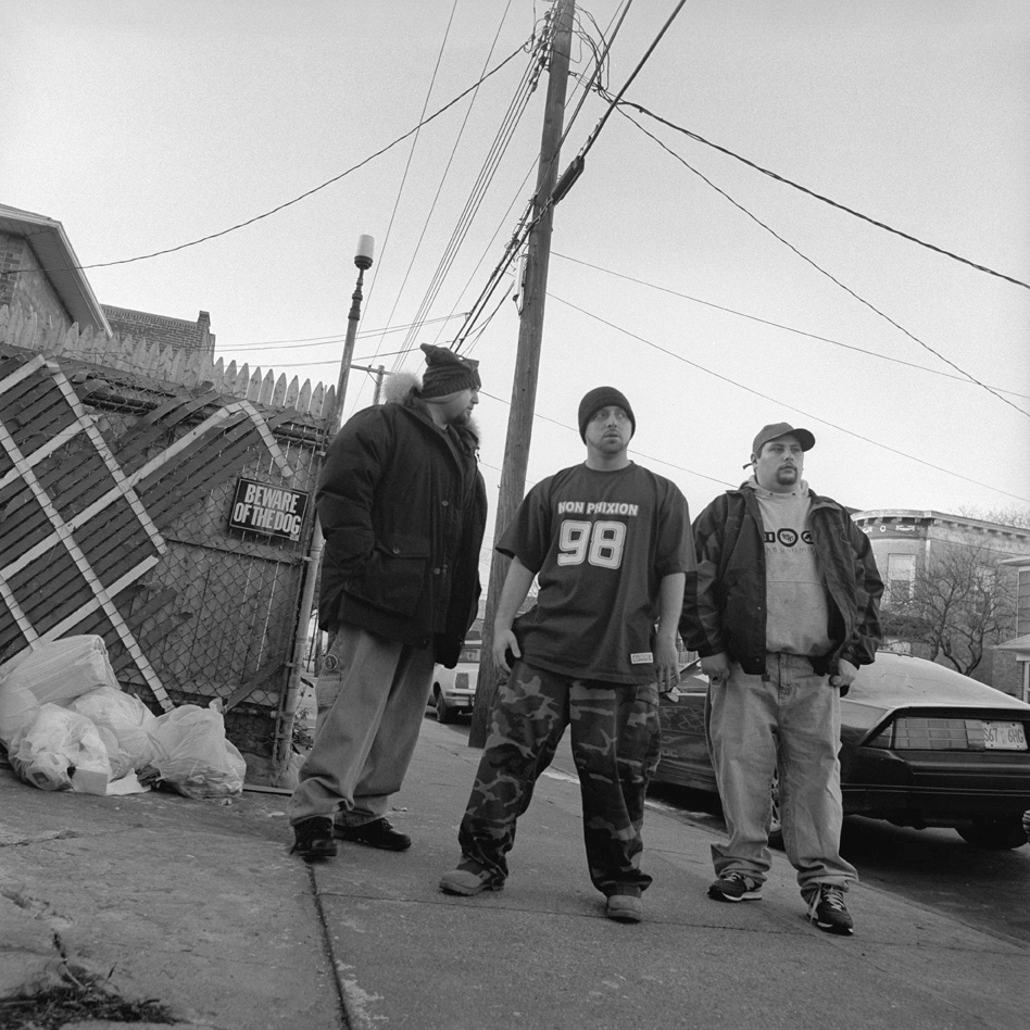 NYC 1998, rap crew Non Phixion